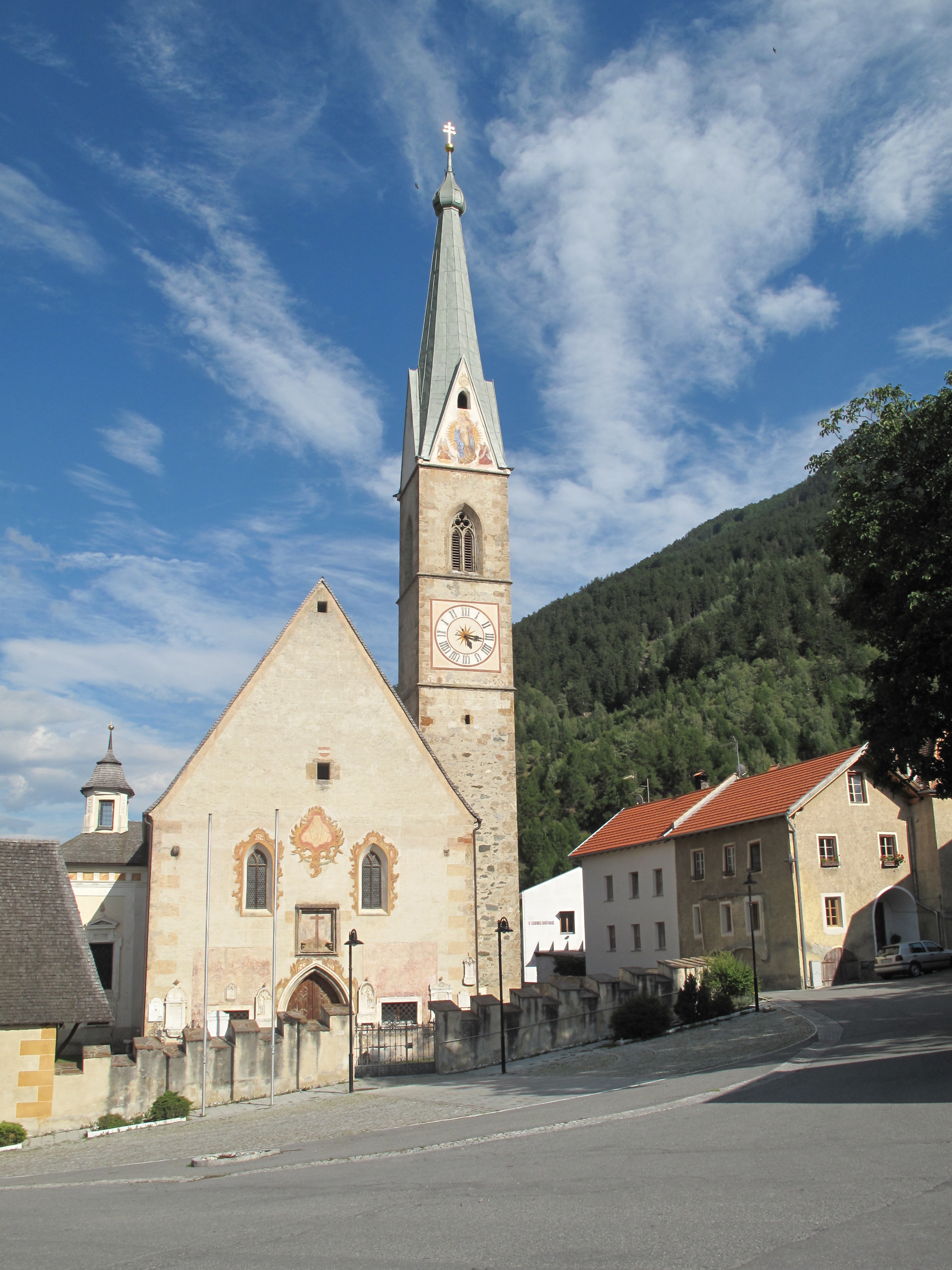 Parish church Mariä Geburt of Tschengls, South Tyrol (Italy)